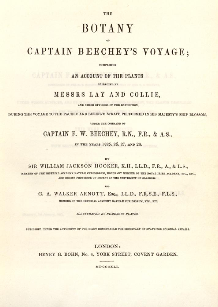 Title page of The Botany of Captain Beechey's Voyage. Published in London by Henry G. Bohn, 1841.